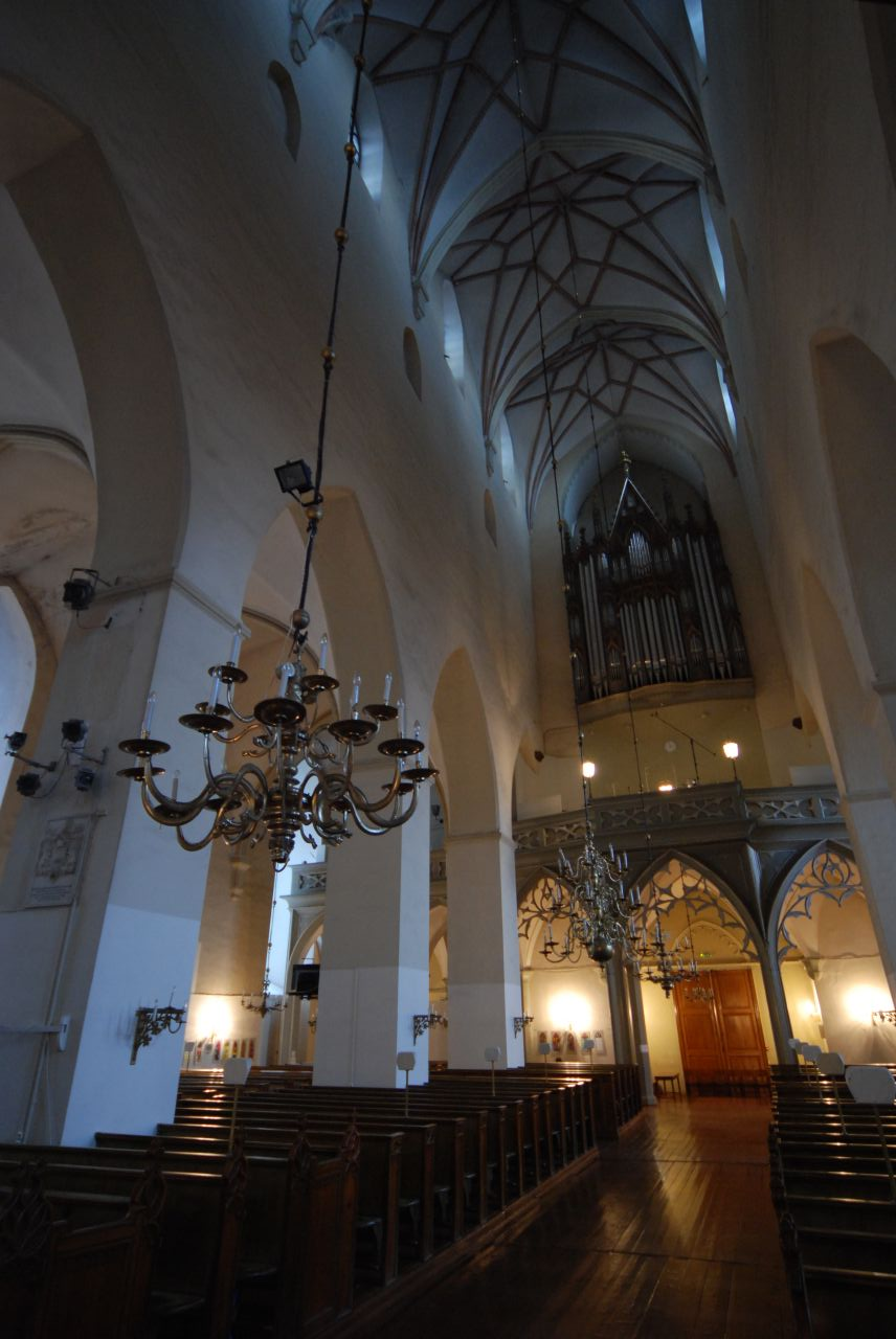 Interior of St. Olaf's Church in Tallin, Estonia.